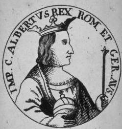 Albrecht I. of Habsburg